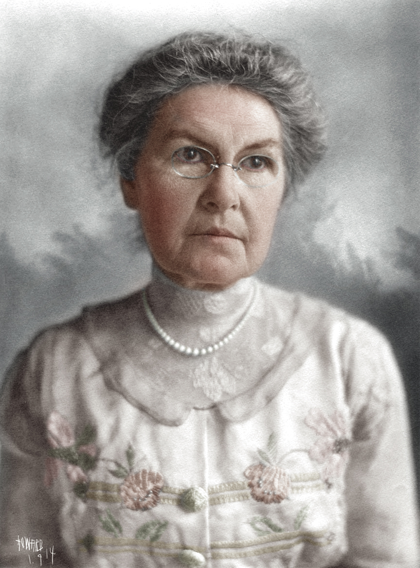 Clara Hesperia Bannister Congdon